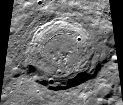 Karpinskiy lunar crater, Clementine image